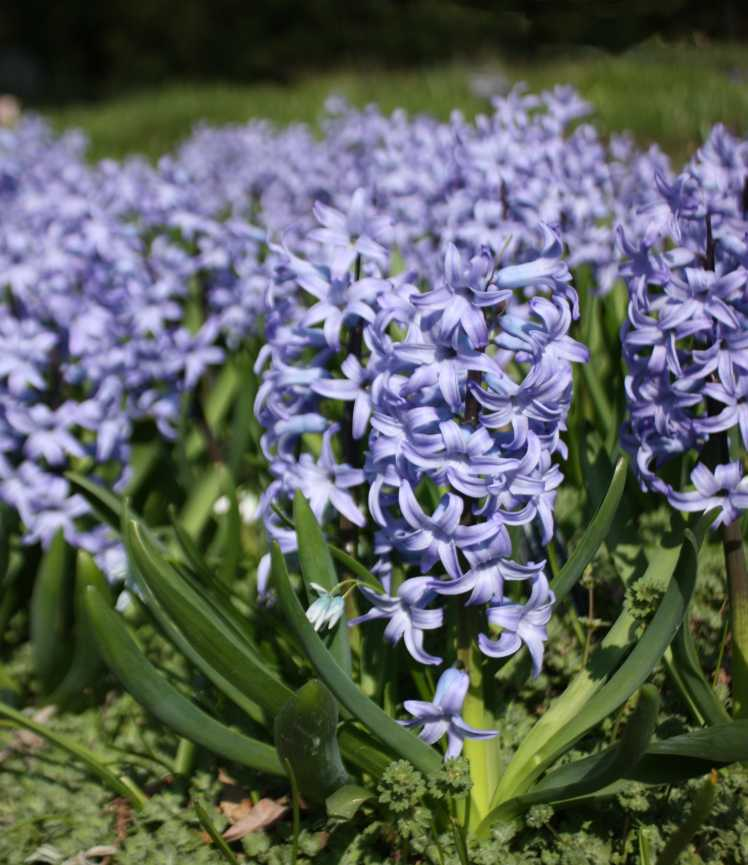 Hyacint, Brno, CZ Česky: Hyacint, Brno, CZ